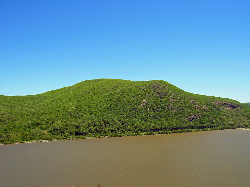 Bull Hill, New York, USA from Route 218 on the side of Storm King Mountain. Note old quarry site at right.